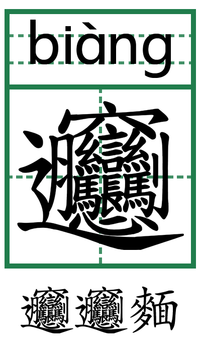 the character biang